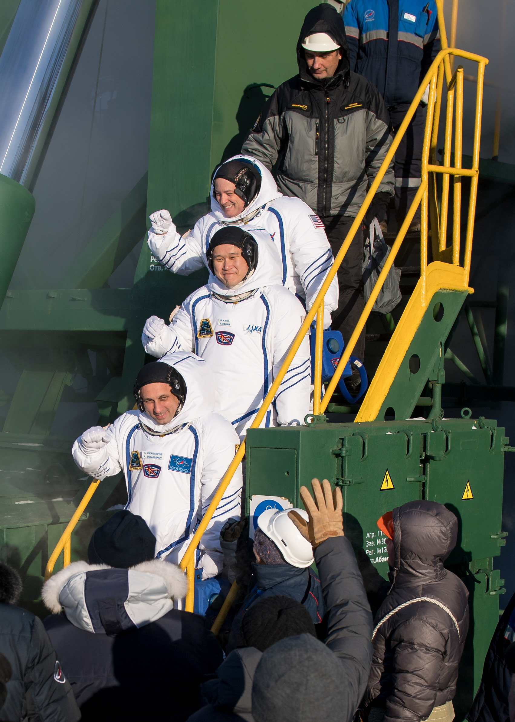 Expedition 54 flight engineer Scott Tingle of NASA, top, flight engineer Norishige Kanai of Japan Aerospace Exploration Agency (JAXA), middle, and Soyuz Commander Anton Shkaplerov of Roscosmos, bottom, wave farewell prior to boarding the Soyuz MS-07 rocket for launch, Sunday, Dec. 17, 2017 at the Baikonur Cosmodrome in Kazakhstan. Tingle, Norishige Kanai, and Shkaplerov will spend the next five months living and working aboard the International Space Station. Photo Credit: (NASA/Joel Kowsky)